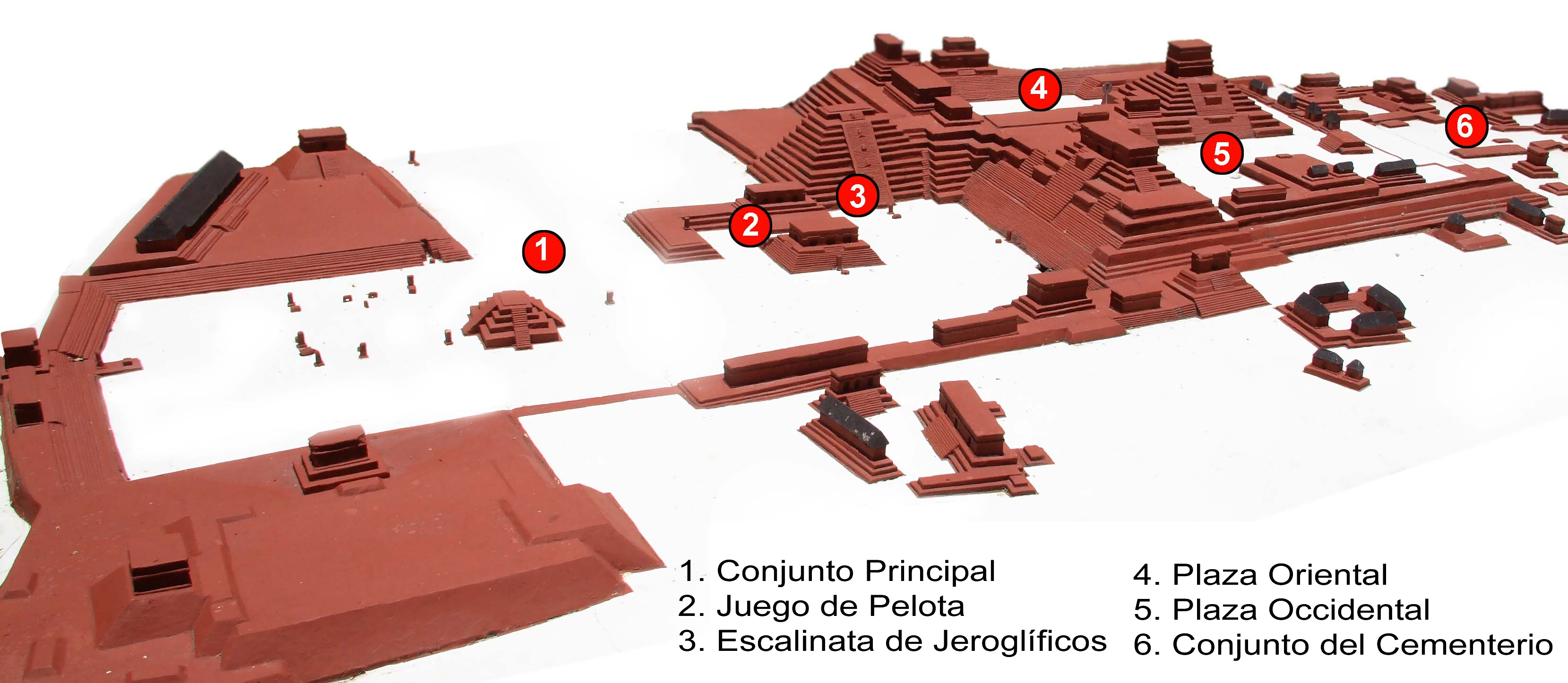 Center of Copán, Spanish version. Legend: 1. Main Group; 2. Ballcourt; 3. Hieroglyphic Stairway; 4. East Court; 5. West Court; 6. Cemetery Group